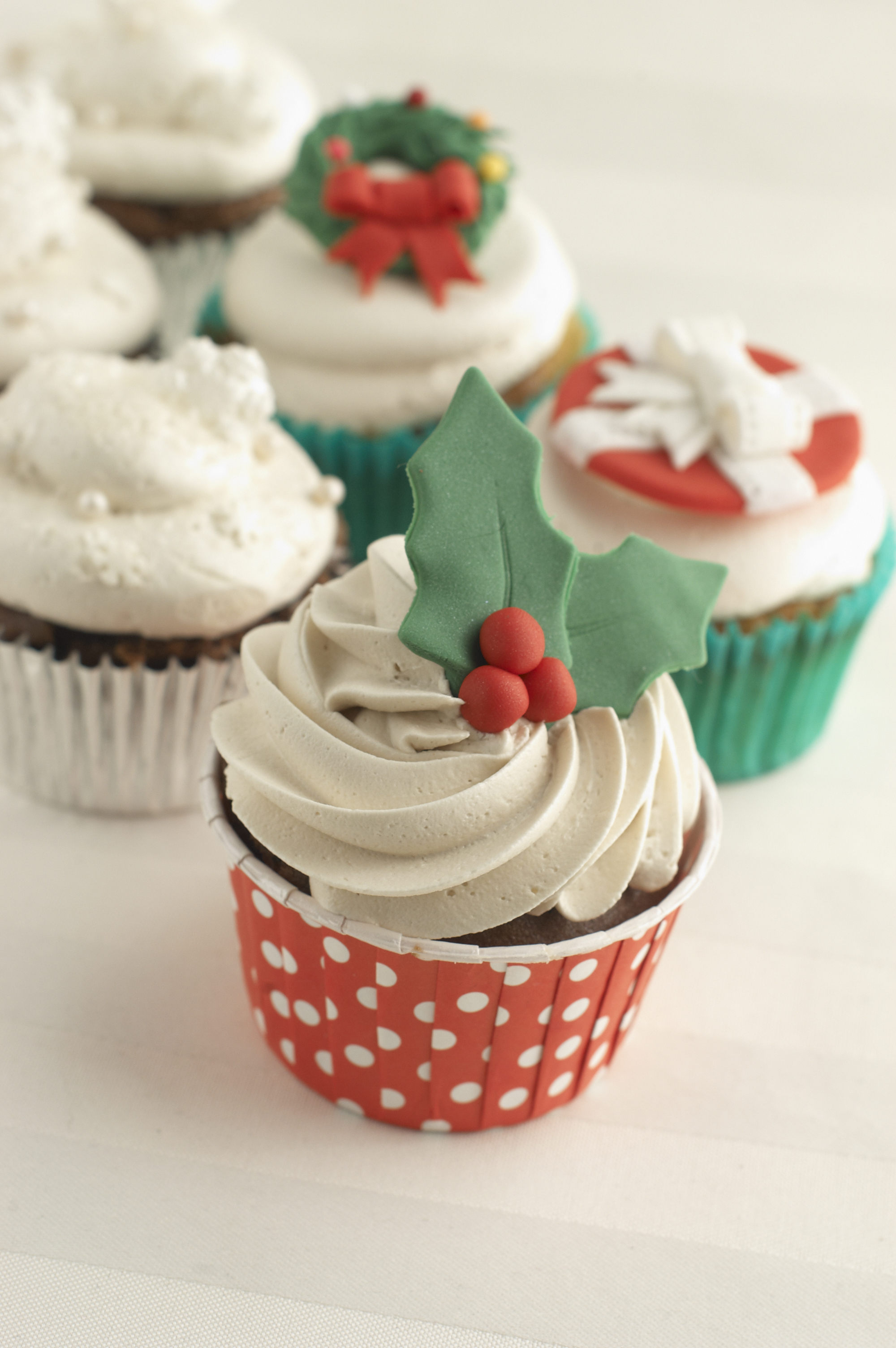 Christmas themed cupcakes